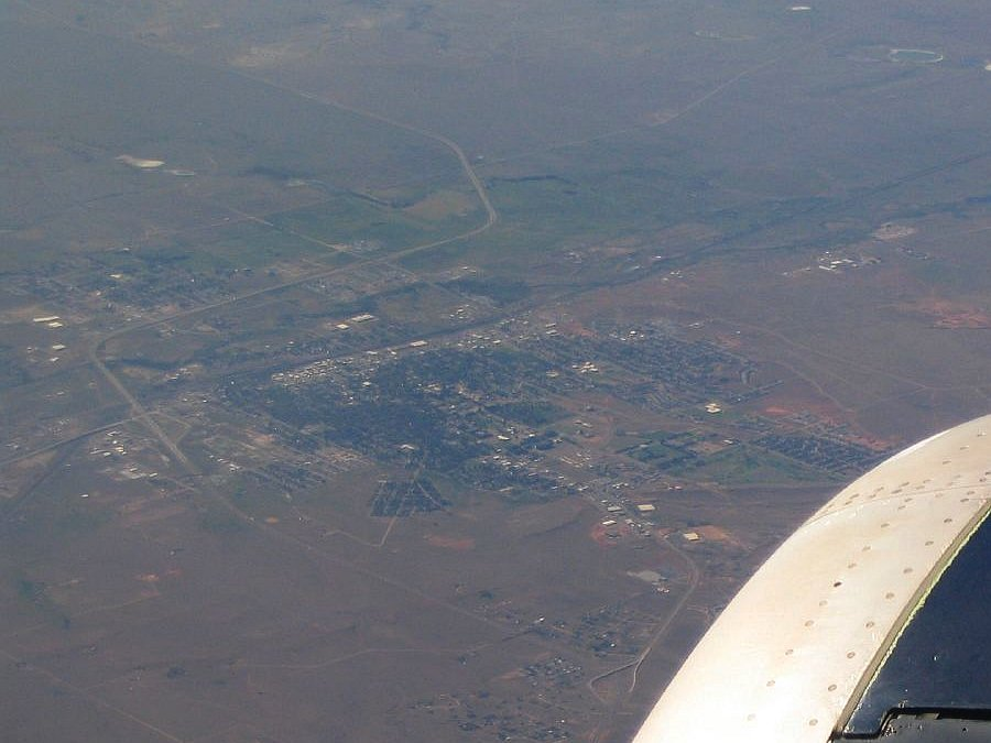 Laramie is a city in and the county seat of Albany County, Wyoming, United States. The population was 30,816 at the 2010 census. Located on the Laramie River in southeastern Wyoming, the city is west of Cheyenne, at the junction of Interstate 80 and U.S. Route 287. Laramie was settled in the mid-19th century along the Union Pacific Railroad line, which crosses the Laramie River at Laramie. It is home to the University of Wyoming, Wyoming Technical Institute, and a branch of Laramie County Community College. Laramie Regional Airport serves Laramie. The ruins of Fort Sanders, an army fort predating Laramie, lie just south of the city along Route 287. Located in the Laramie Valley between the Snowy Range and the Laramie Range, the city draws outdoor enthusiasts because of its abundance of outdoor activities.